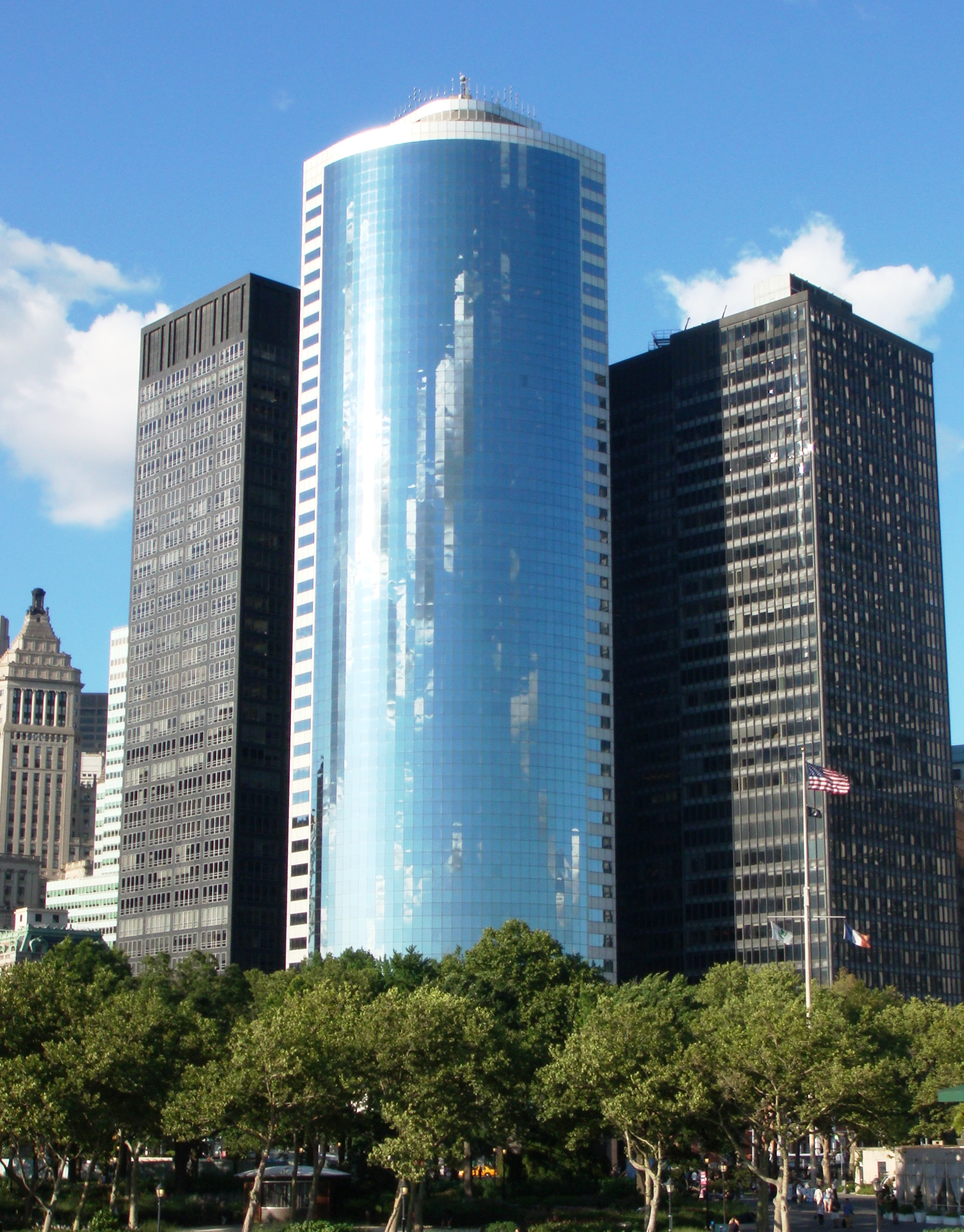 17 State Street, Downtown